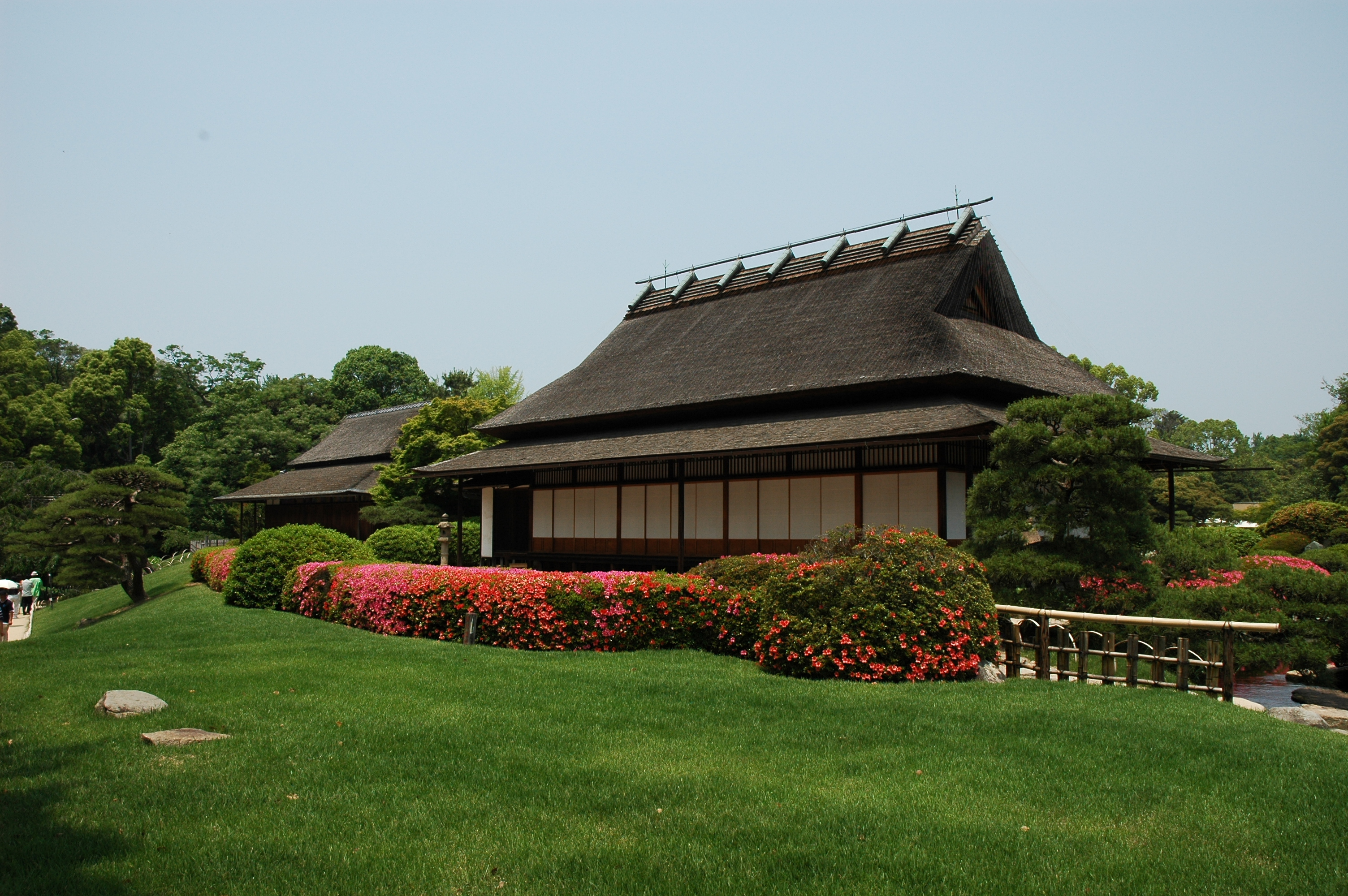 Enyotei(this side building) and Eisho(the other side building)